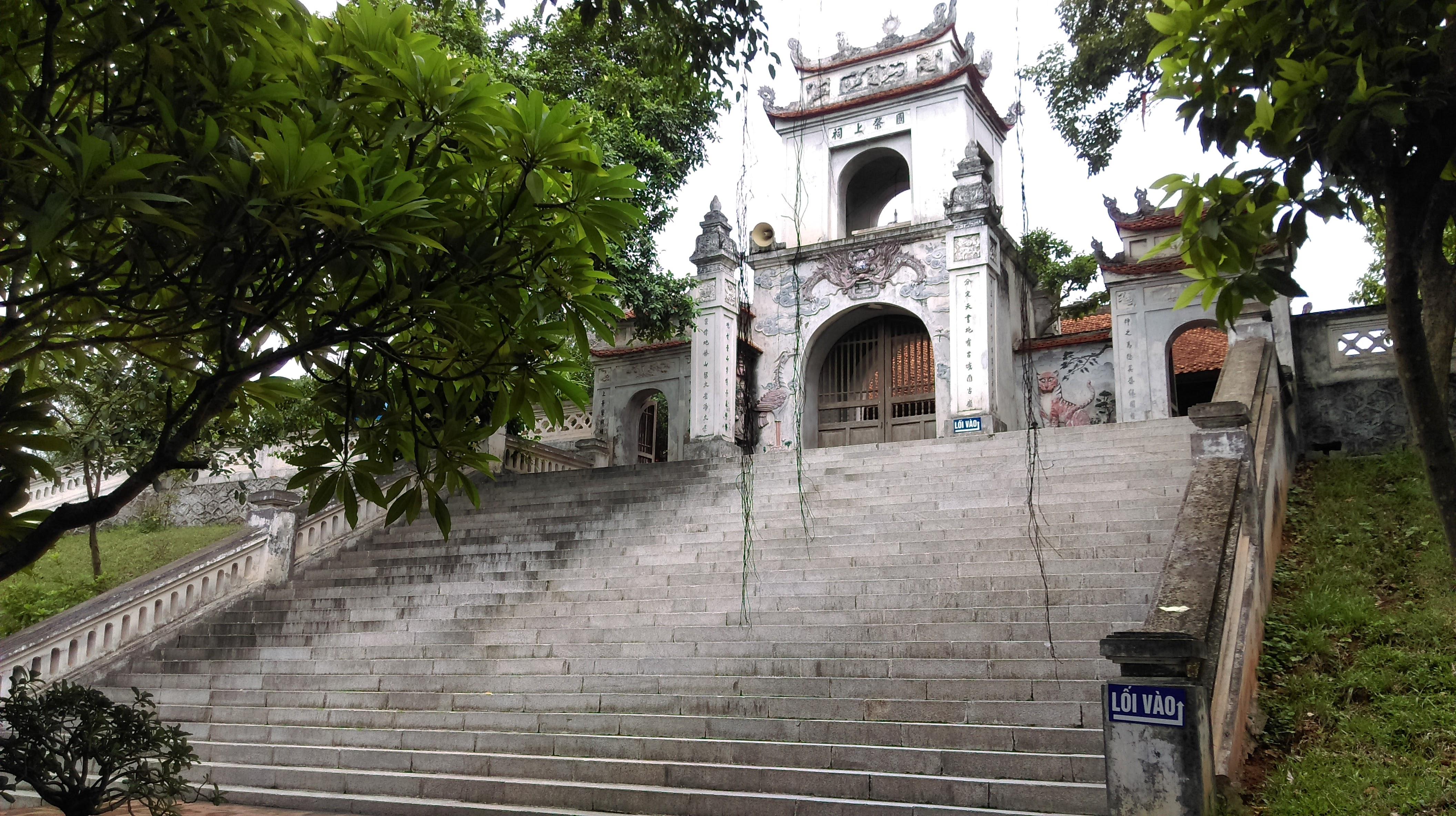 Cuông Temple